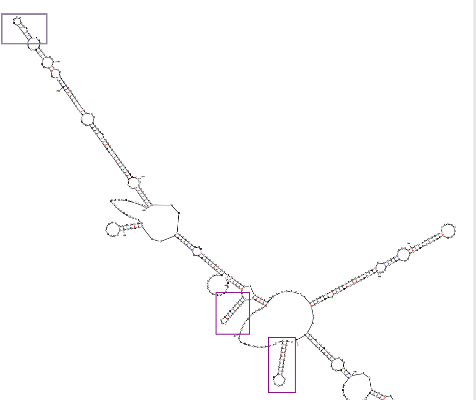 Predicted C20orf27 mfold secondary structure